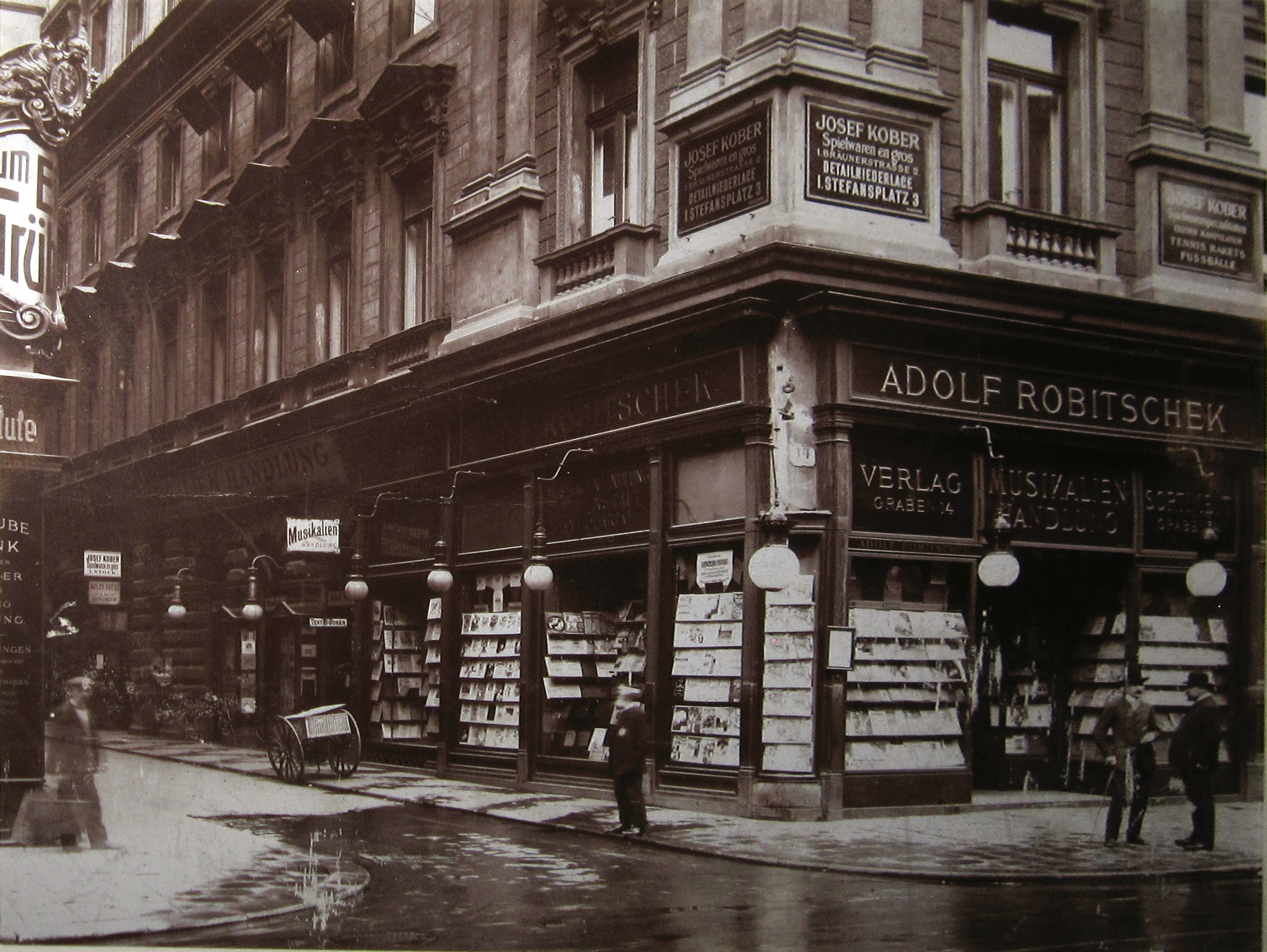 The store of Adolf Robitschek at Graben 14 in Vienna's district I. Original image was taken around 1900, the author is unknown.